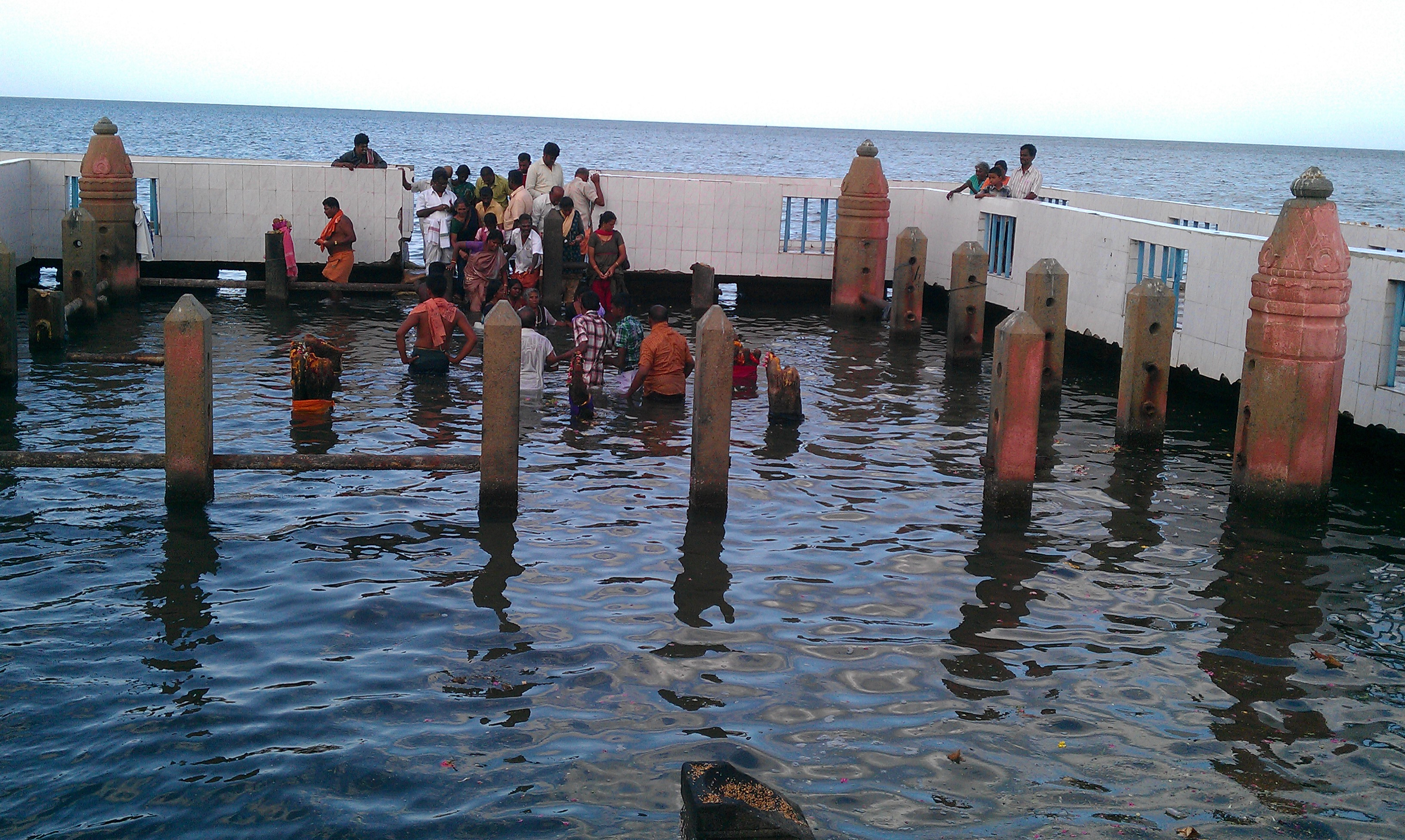 Uthiragosamangai